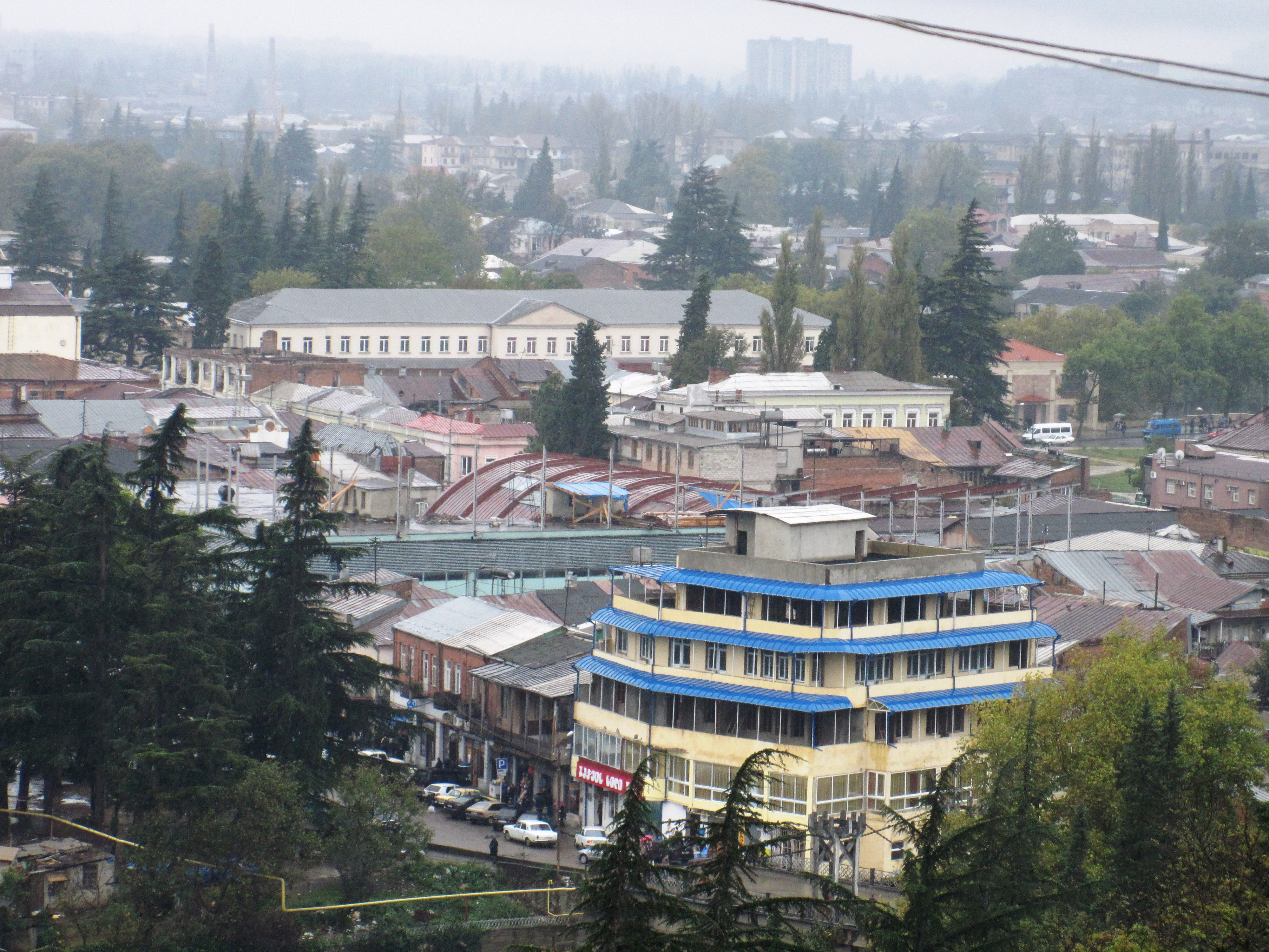 View on Kutaisi from Bagrati Cathedral